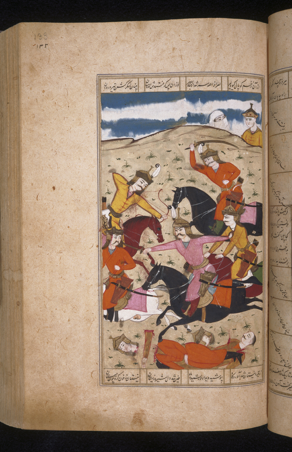 Illumination from a Shahnameh manuscript[1]